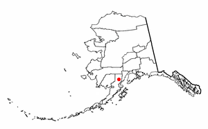 Adapted from Wikipedia's AK borough maps by Seth Ilys.